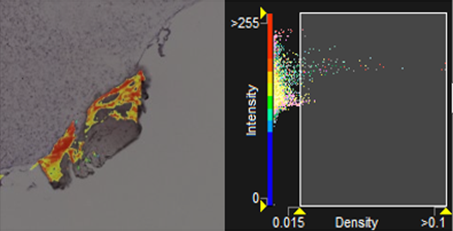 The image above is a heat map of the expression of SPATS1 protein in the pituitary gland.